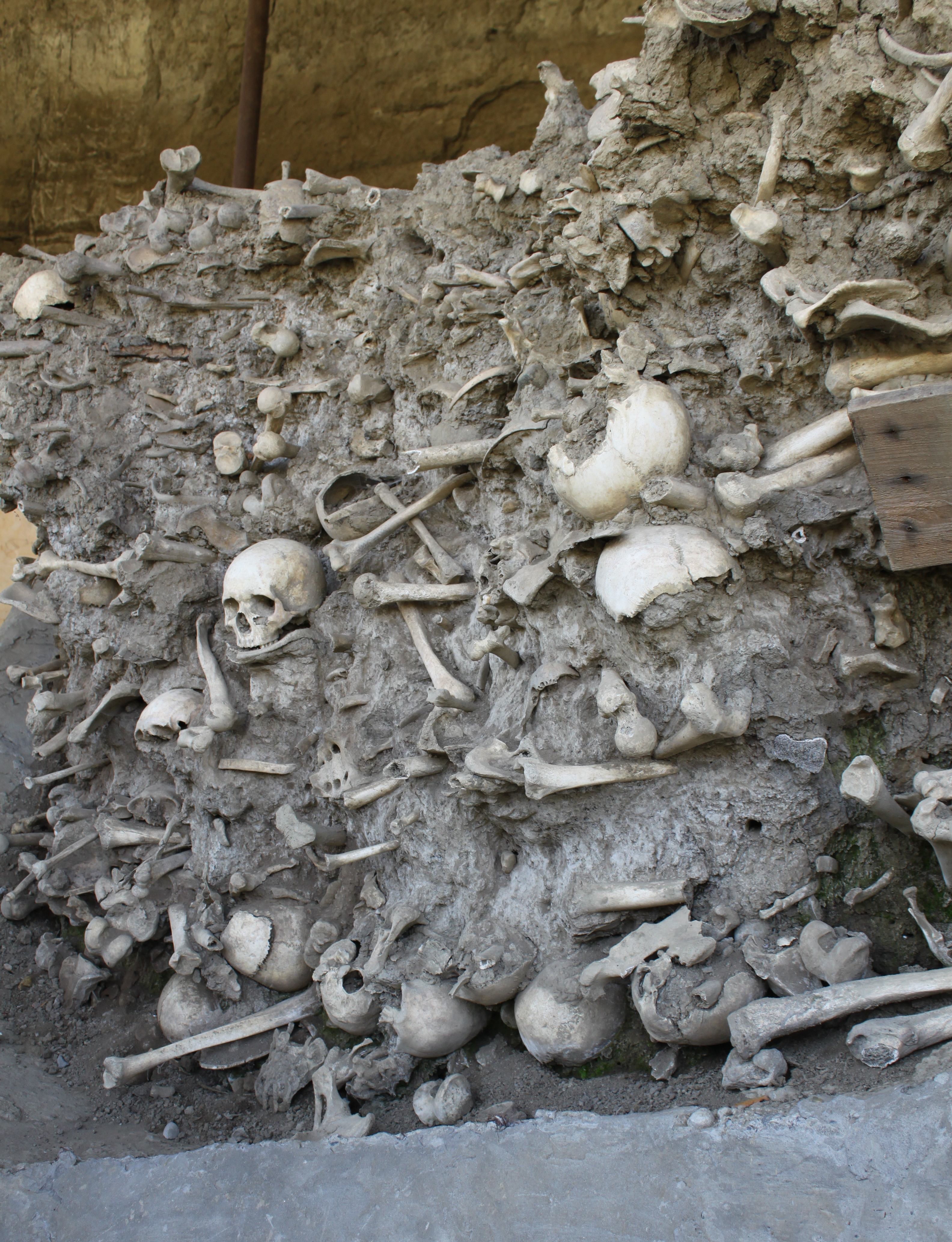 Guba mass grave